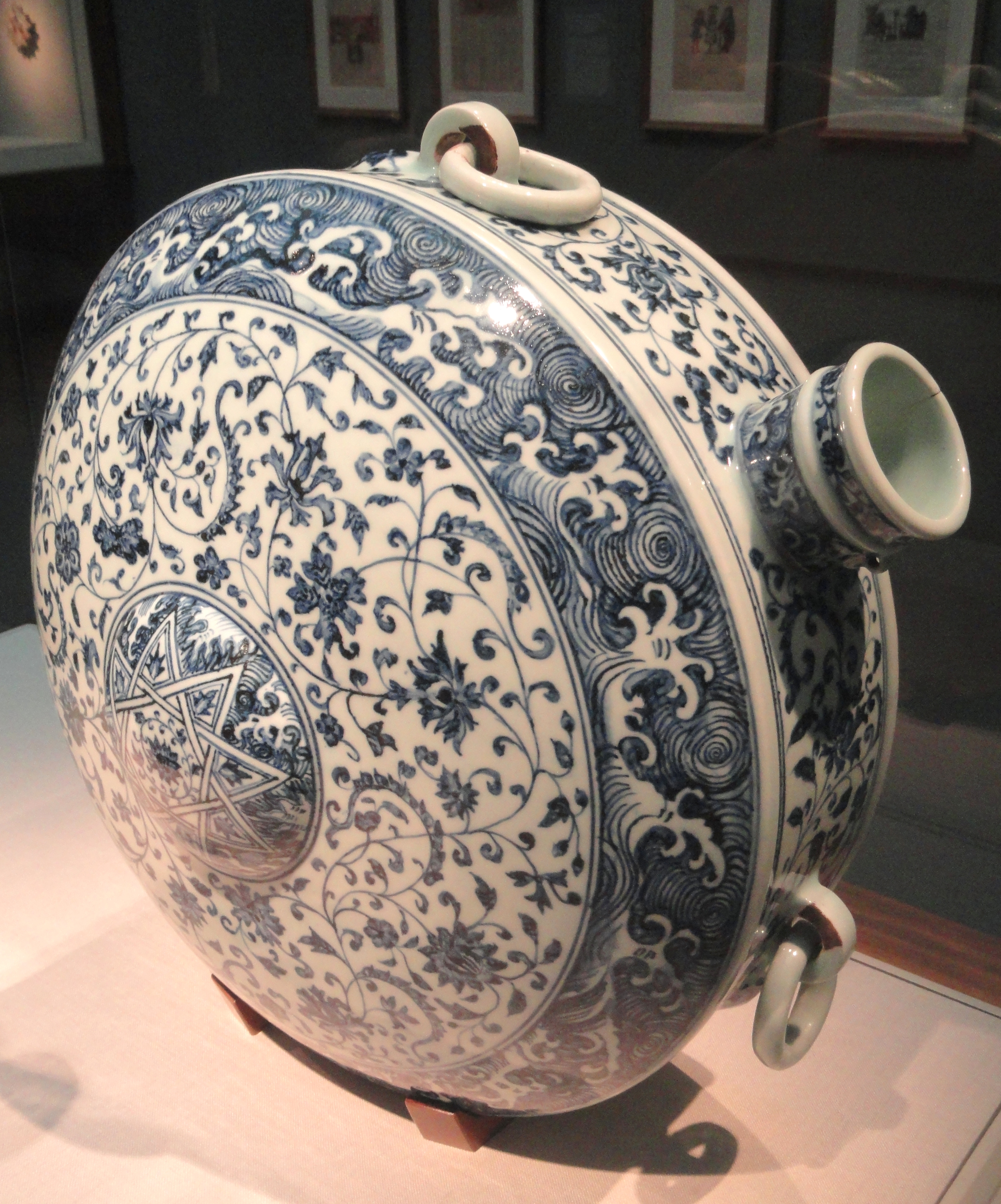 Exhibit in the Freer Gallery of Art, Washington, DC, USA. This artwork is old enough so that it is in the public domain.